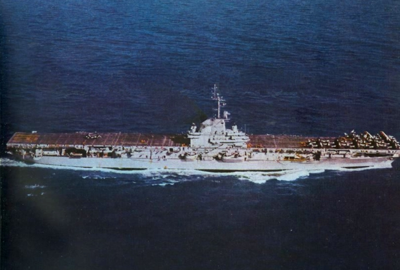 The U.S. aircraft carrier USS Wasp (CVA-18) after her SCB-27A conversion. Wasp had been deployed to the Western Pacific with Air Task Group 1 (ATG-1) aboard from 1 September 1954 to 11 April 1955. She then underwent the SCB-125 modernization in 1955.